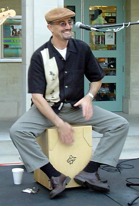 I took this photo of Edgardo Cambon playing the cajon at the Claremont Colleges on 10-19-05. Edgardo leads a very popular band in the San Francisco Bay Area called Candela.